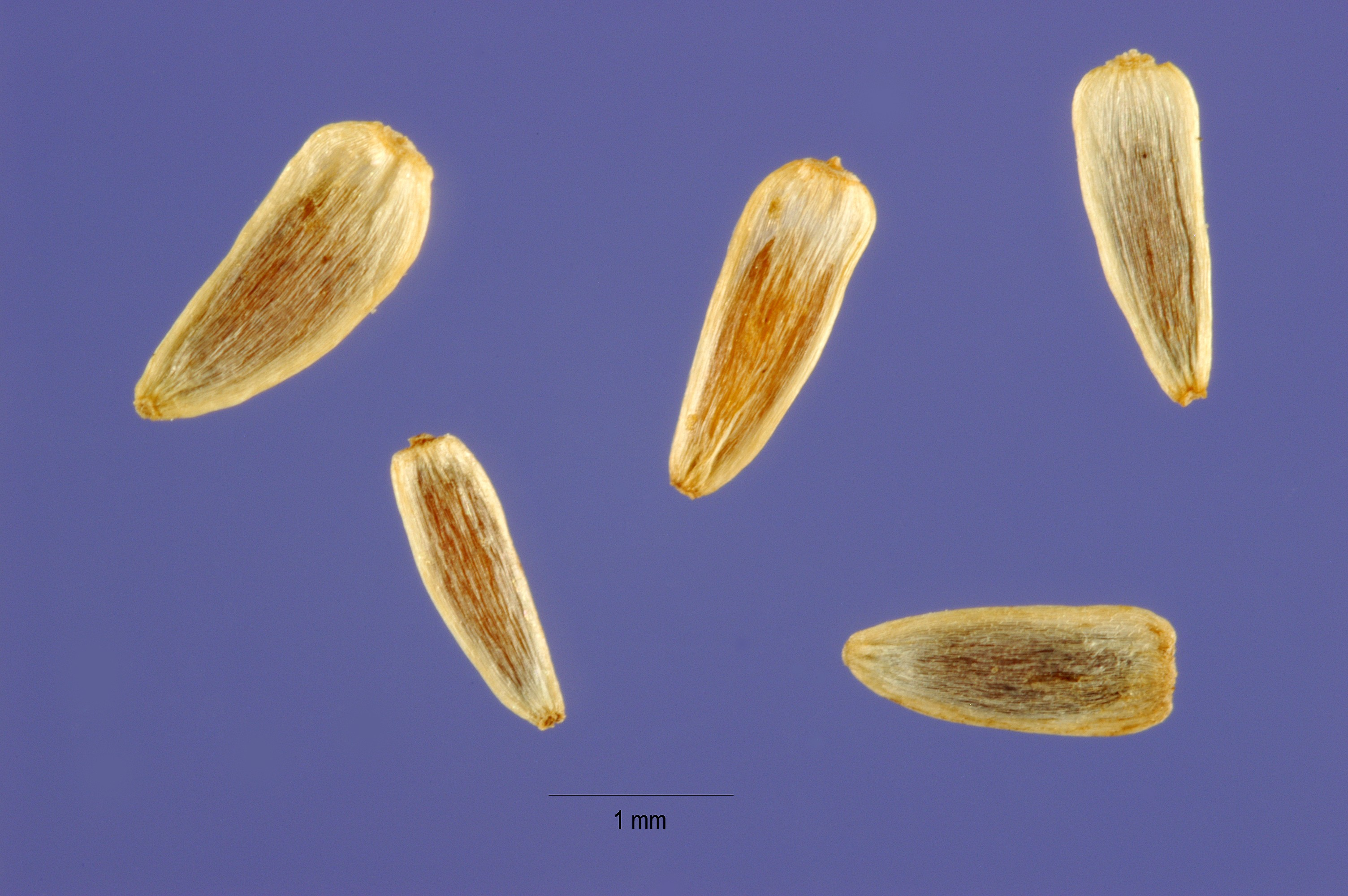 Common Yarrow. Seeds. From France.